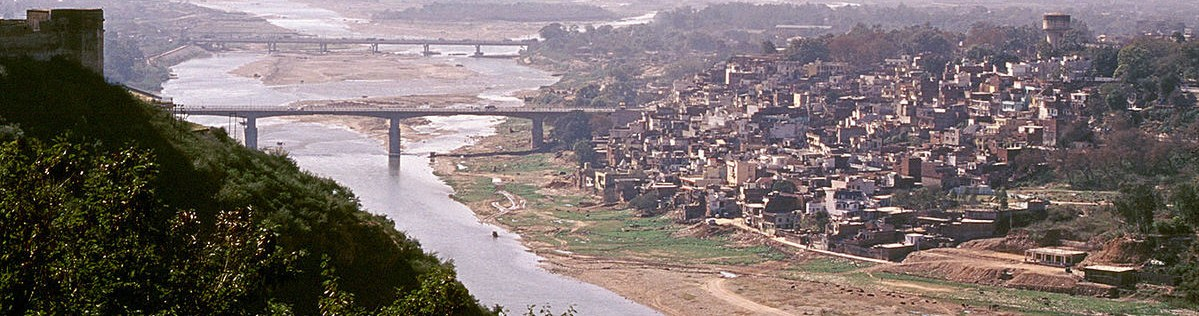 Bridges on river Tawi, Jammu